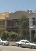 Consulate of Eritrea in Melbourne